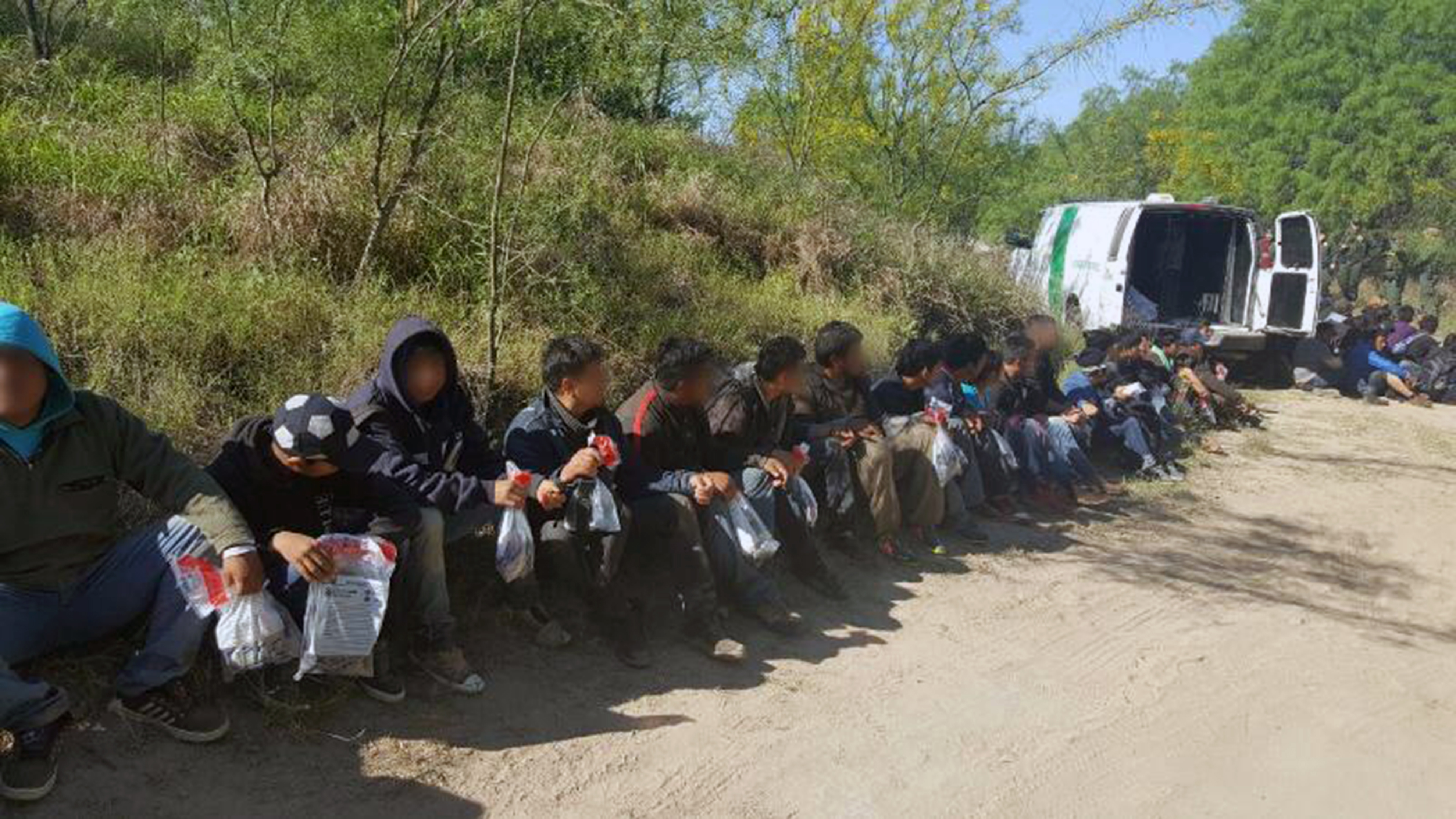 040516: RIO GRANDE CITY, Texas —Rio Grande City Border Patrol Agents apprehended 102 undocumented aliens. Immigrants apprehended by Rio Grande City Agents. Agents working near Fronton observed more than 80 undocumented aliens cross the Rio Grande in rafts. A short time later, the agents observed another large group of undocumented aliens make their way north and converge with the initial group. Agents with the assistance of the Mobile Response Team, pilots with Air and Marine Operations and Texas Department of Public Safety’s Air Unit along with Rio Grande Valley Sector Riverine Units apprehended 102 illegal immigrants. The immigrants consisted of 73 men, 12 women and 17 juveniles. Photo provided by: U.S. Customs and Border Protection